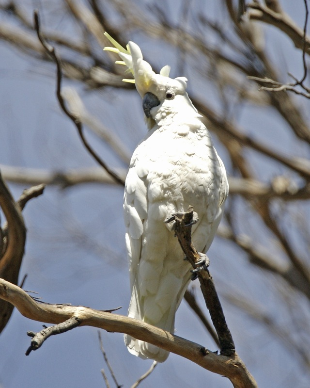 Sulphur-crested Cockatoo (Cacatua galerita) at Brisbane Ranges, Victoria, Australia on 10 November 2008.